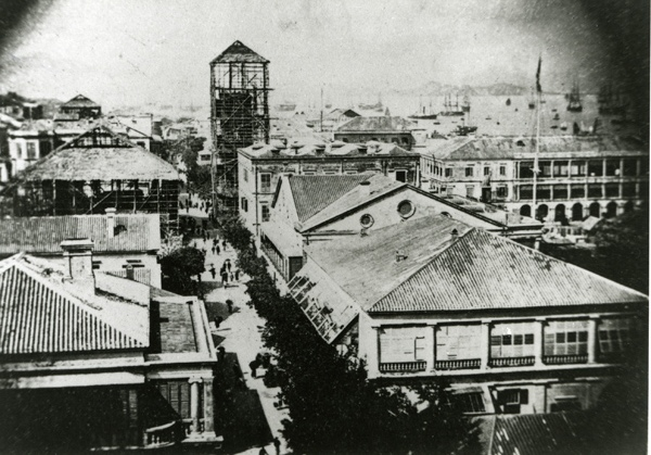 Pedder Street Clock Tower in 1861